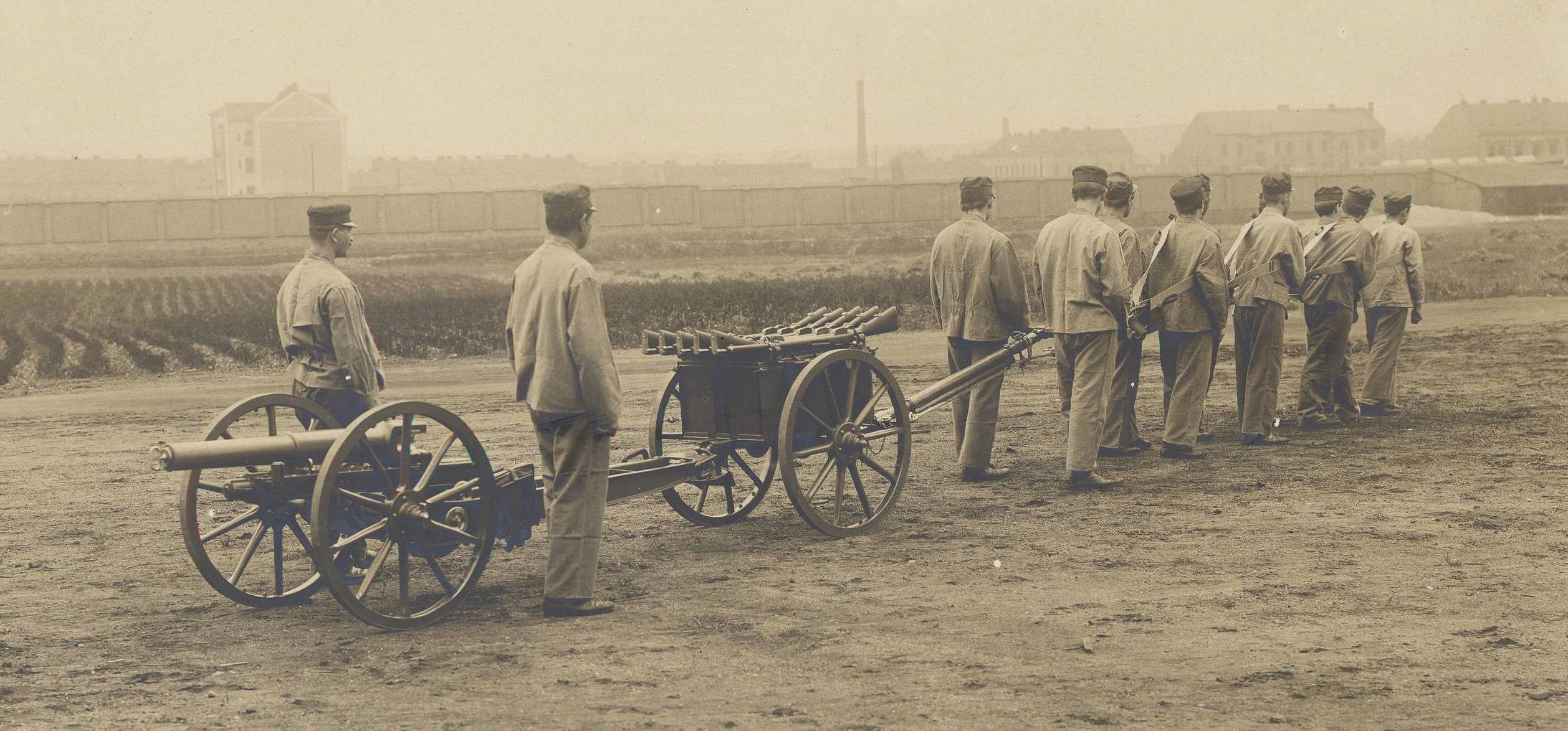 Skoda 70 mm field gun pulled by men